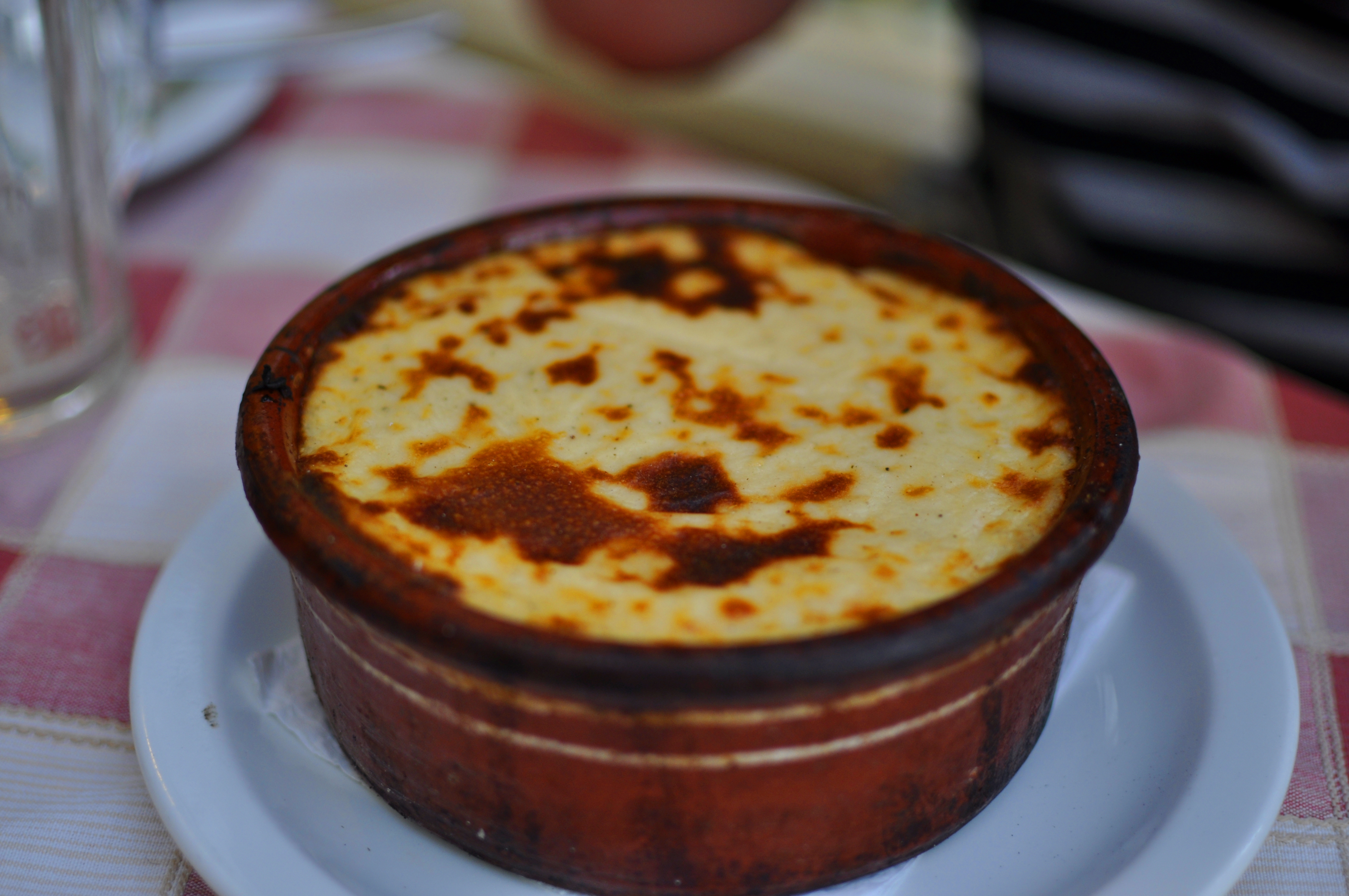 Moussaka.